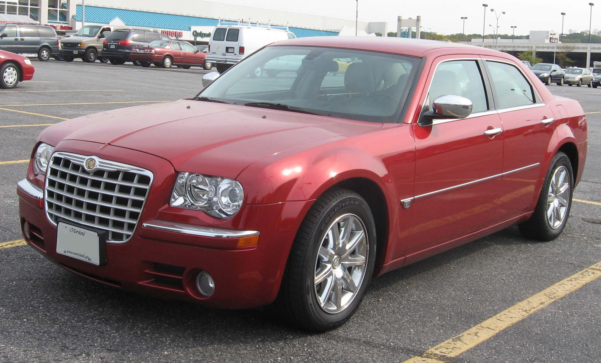 2005-2008 Chrysler 300C photographed in Greenbelt, Maryland, USA.